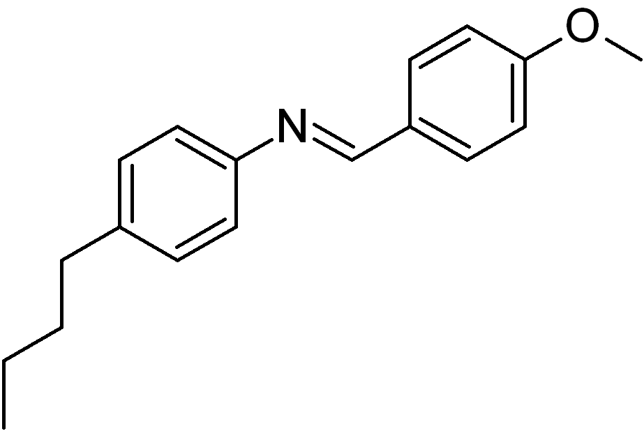 MBBA N-(4-Methoxybenzylidene)-4-butylaniline